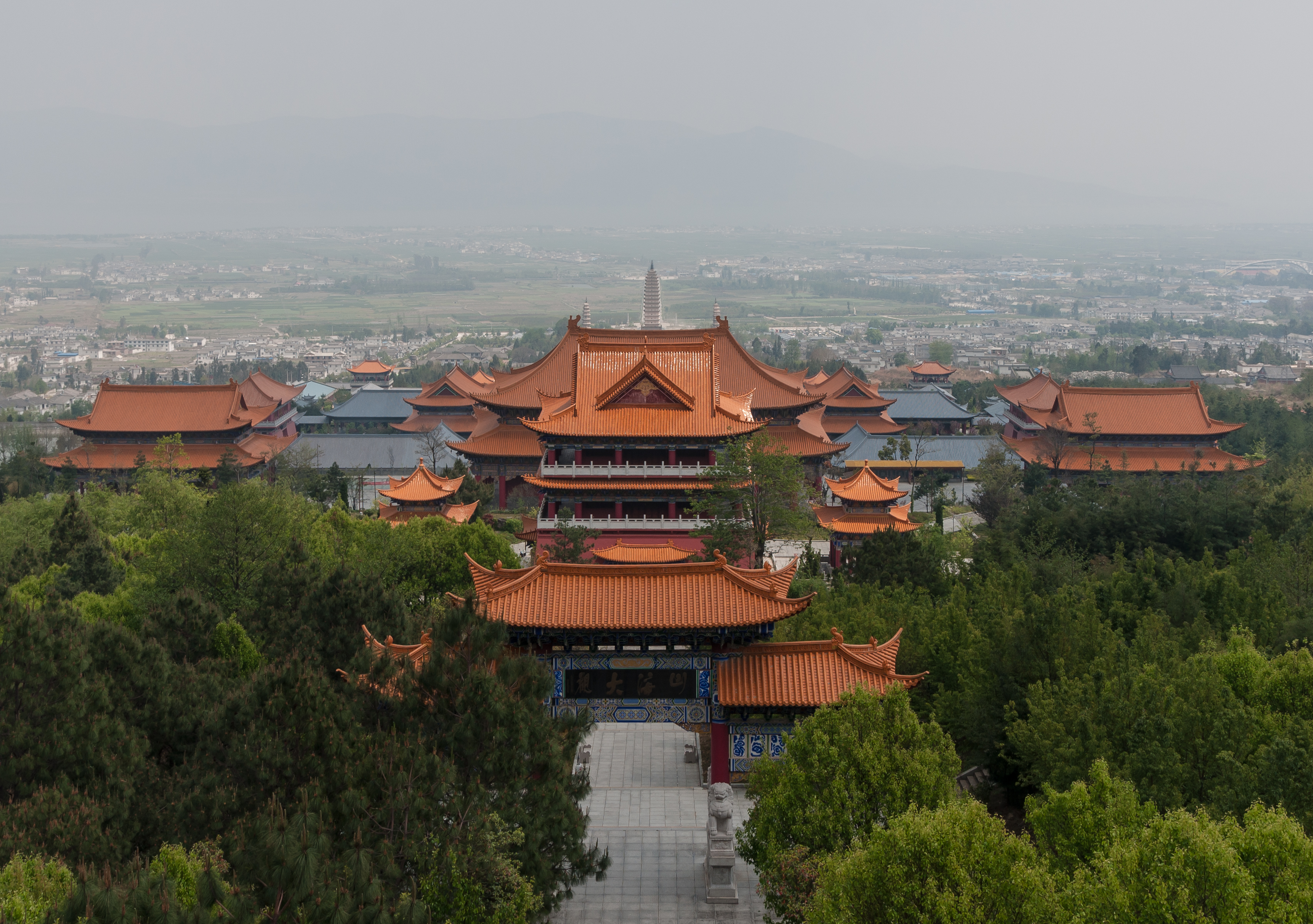 Dali, Yunnan, China: Chongsheng Temple